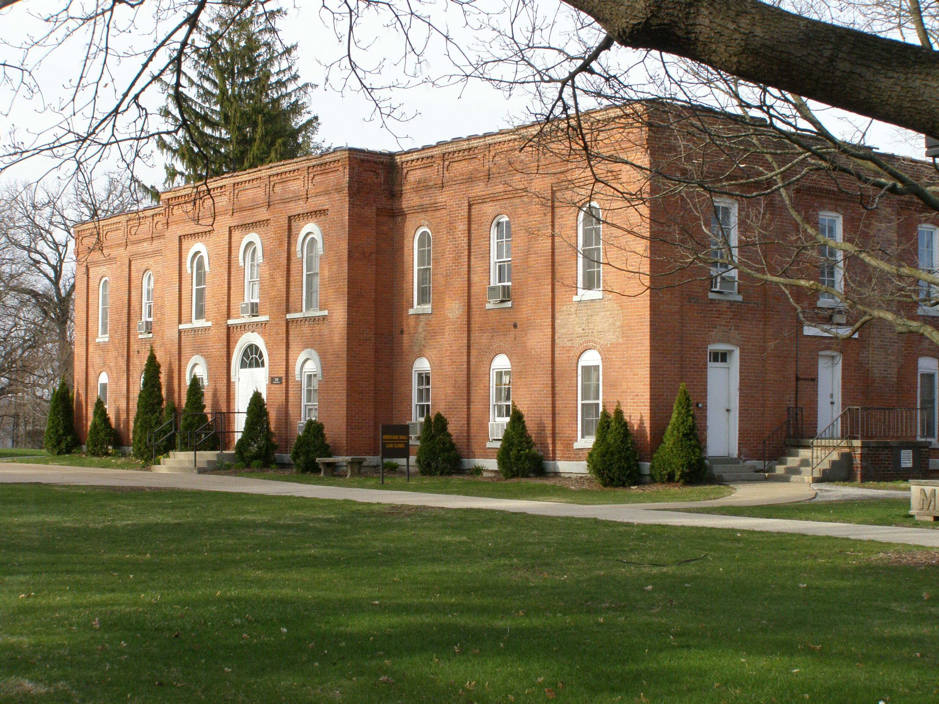 Heritage Hall, Valparaiso University; Valparaiso, IN. Valparaiso University has announced August 2009 that Heritage Hall will be torn down and replaced by a replica.